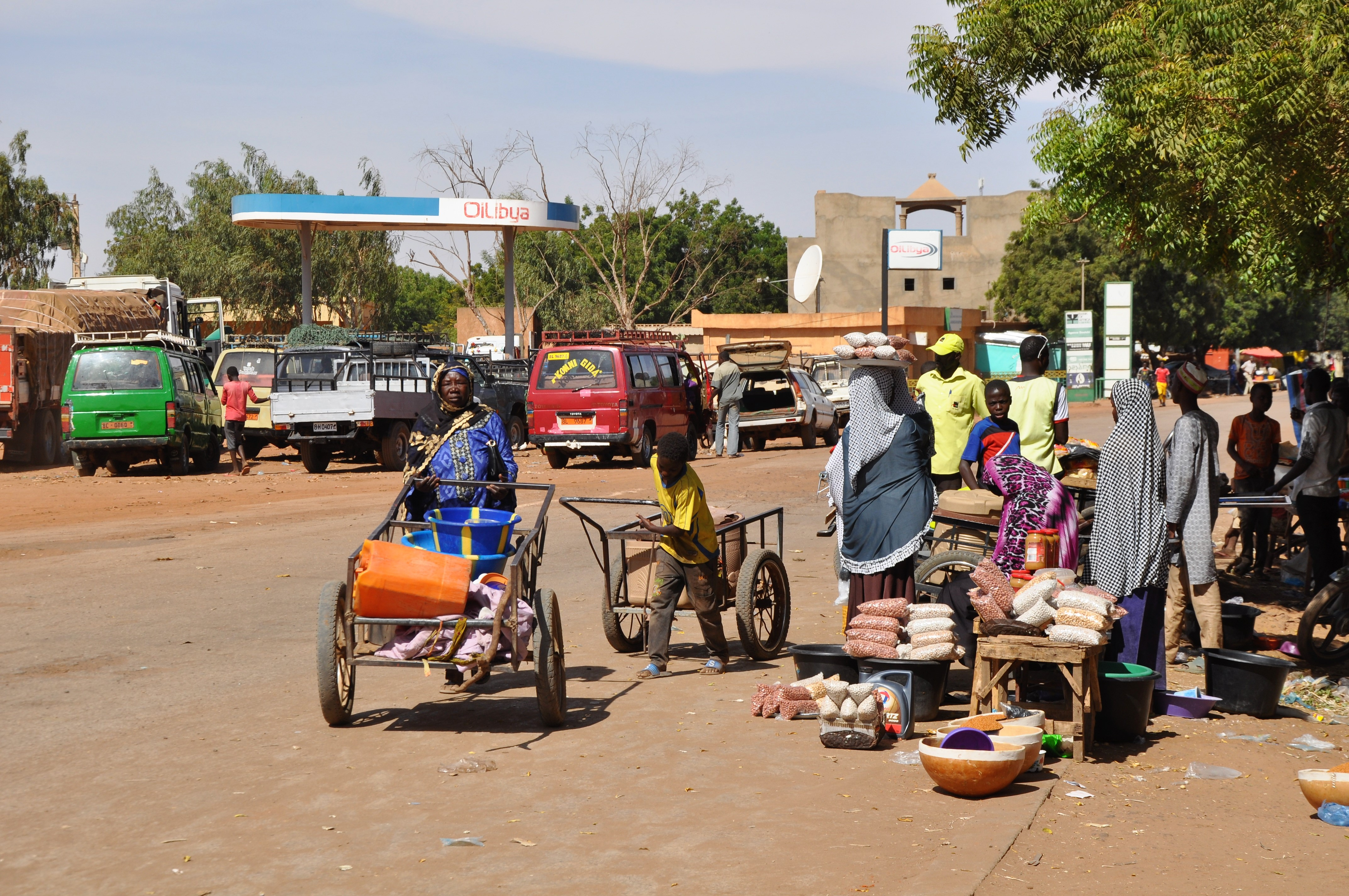 A street scene in the town centre of Dogontdoutchi, Niger (Department of Dogondoutchi; Dosso Region)